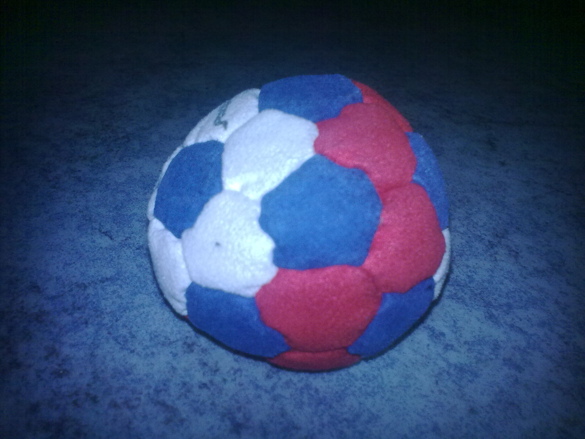 Footbag freestyle ball.